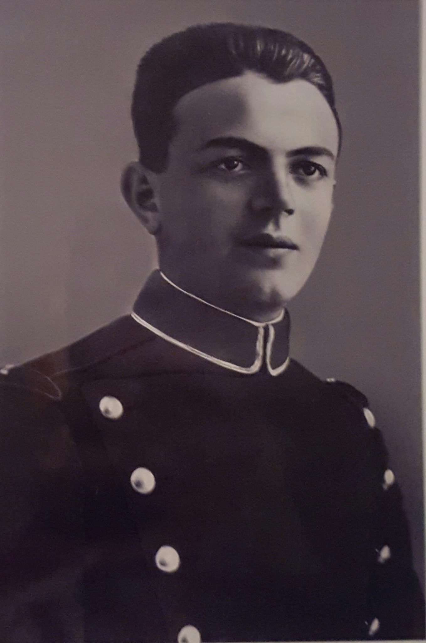 Siri Strazimiri